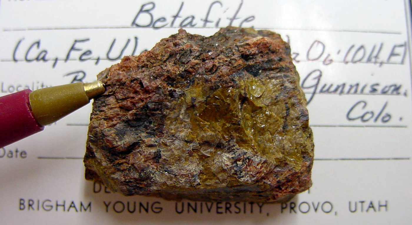 Betafite, Gunnison, Colorado. Mineral collection of Bringham Young University Department of Geology, Provo, Utah. Photograph by Andrew Silver. BYU index 4-8036, (CaFeU)_2 - x(NbTaTi)_2O_6(OHF). URL